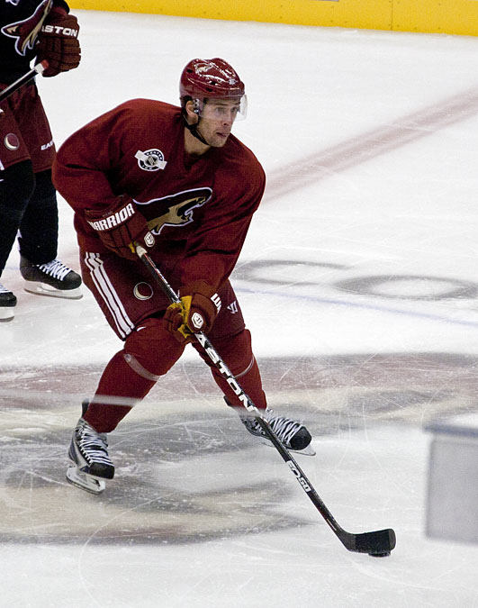 Phoenix Coyotes forward Wojtek Wolski during a practice in 2010.